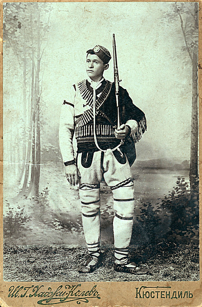 Mito Kosstov Kyoseto